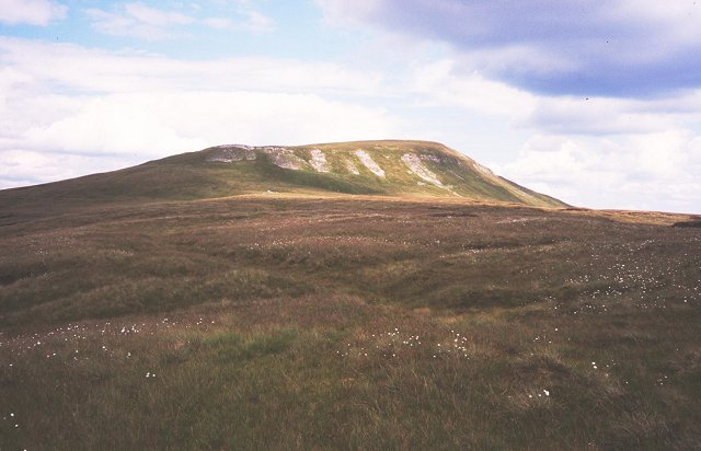 Mickle Fell. The upper block of Mickle Fell's west end is in this square. That is dry grassland. Here, and the rest of the square is peat bog, although easy to cross.